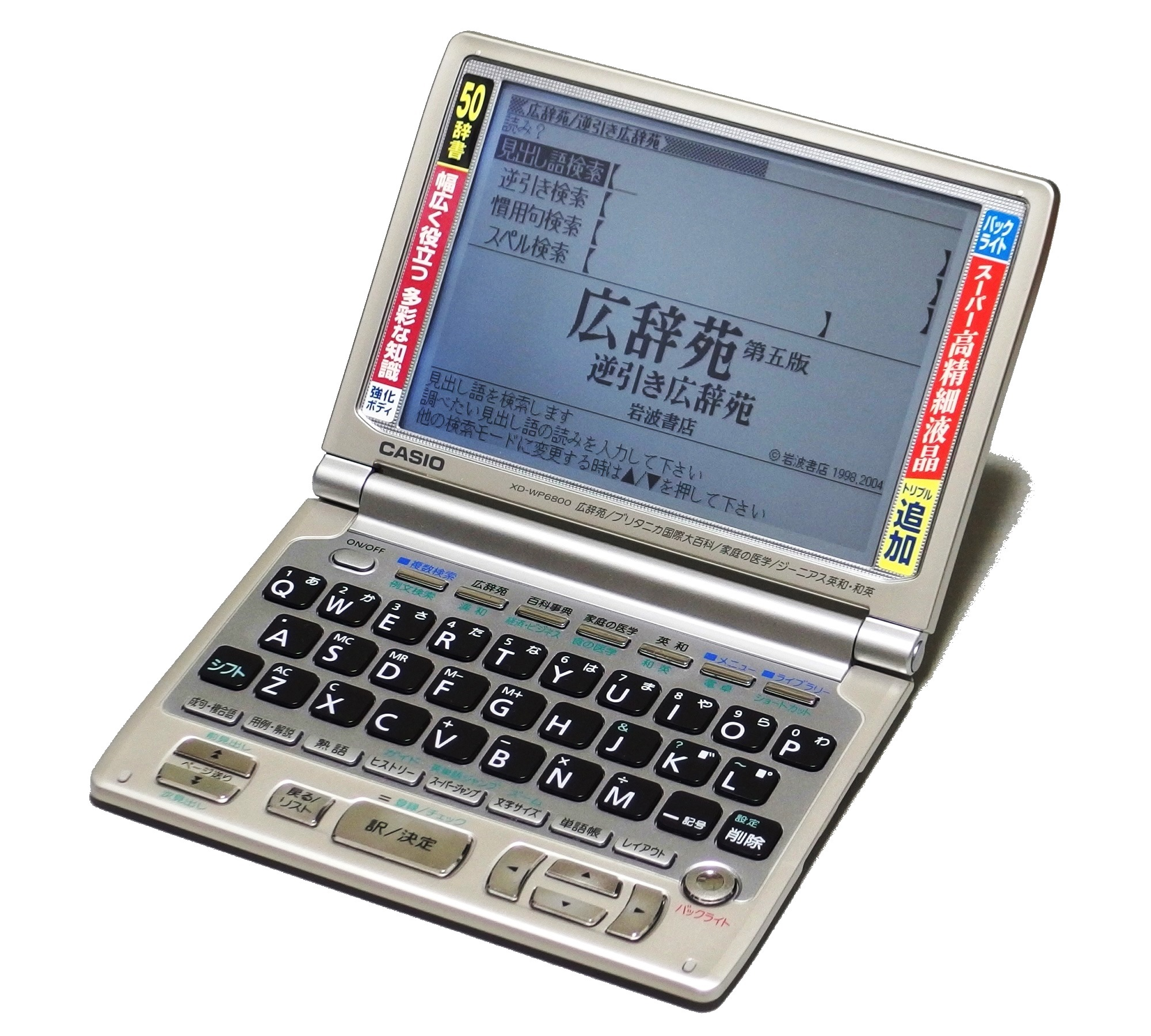 EX-word XD-WP6800, a Japanese IC dictionary, manufactured by Casio Computer in 2005.